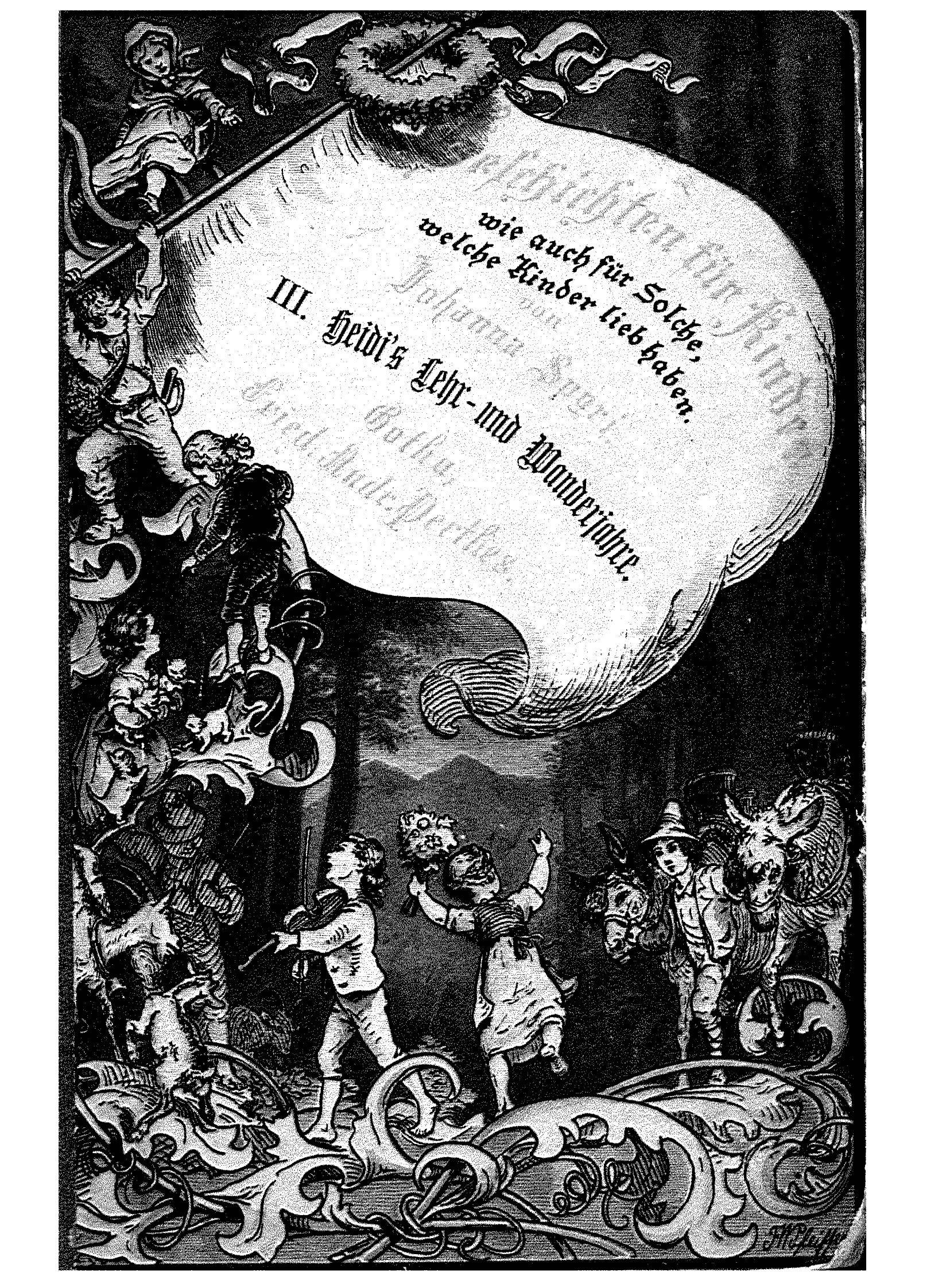 This is a scan of the historical document